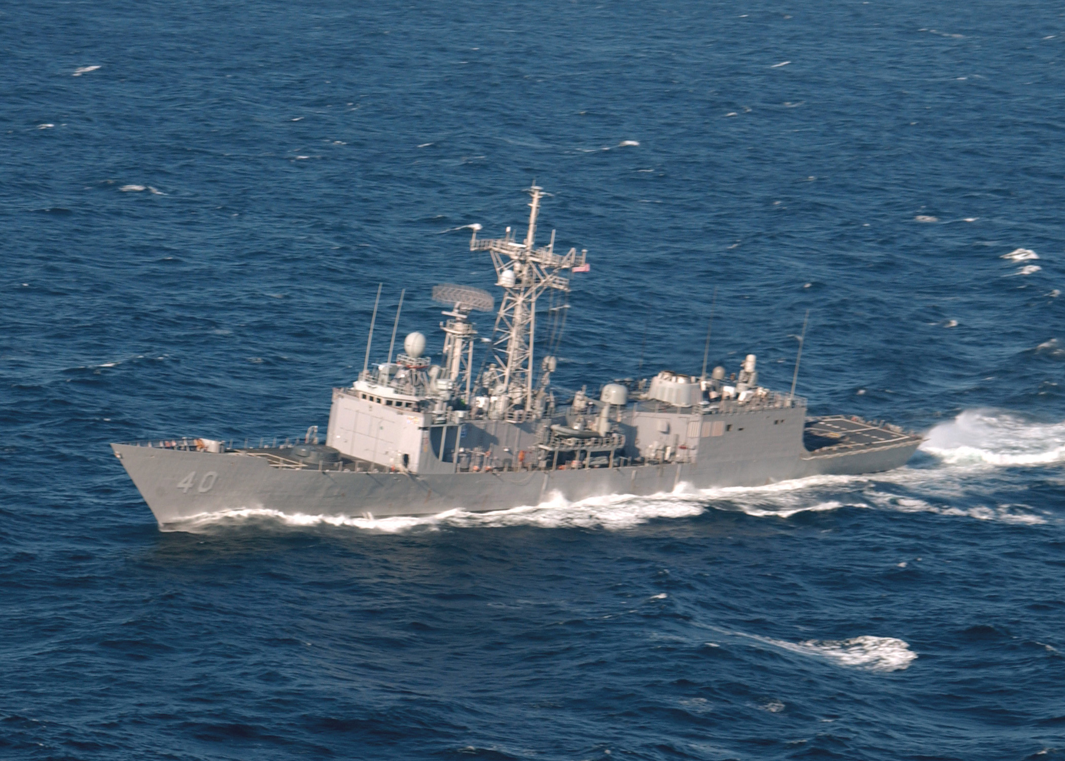 The Oliver Hazard Perry-class frigate USS Halyburton (FFG-40) performs work-ups off the coast of Mayport, Fla., Feb. 13, 2006.